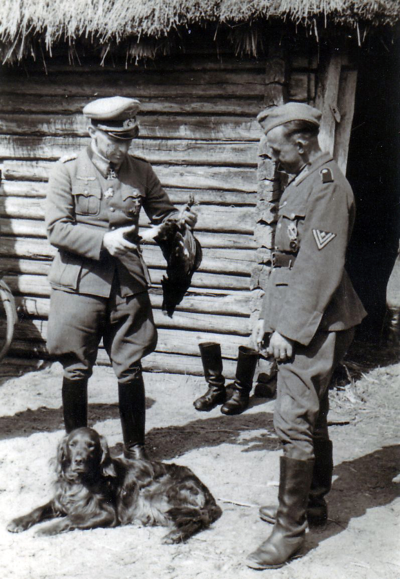 Lieutenant General Hahm (CDR 260th Infantry Division) at Uspech, Russia in May 1943